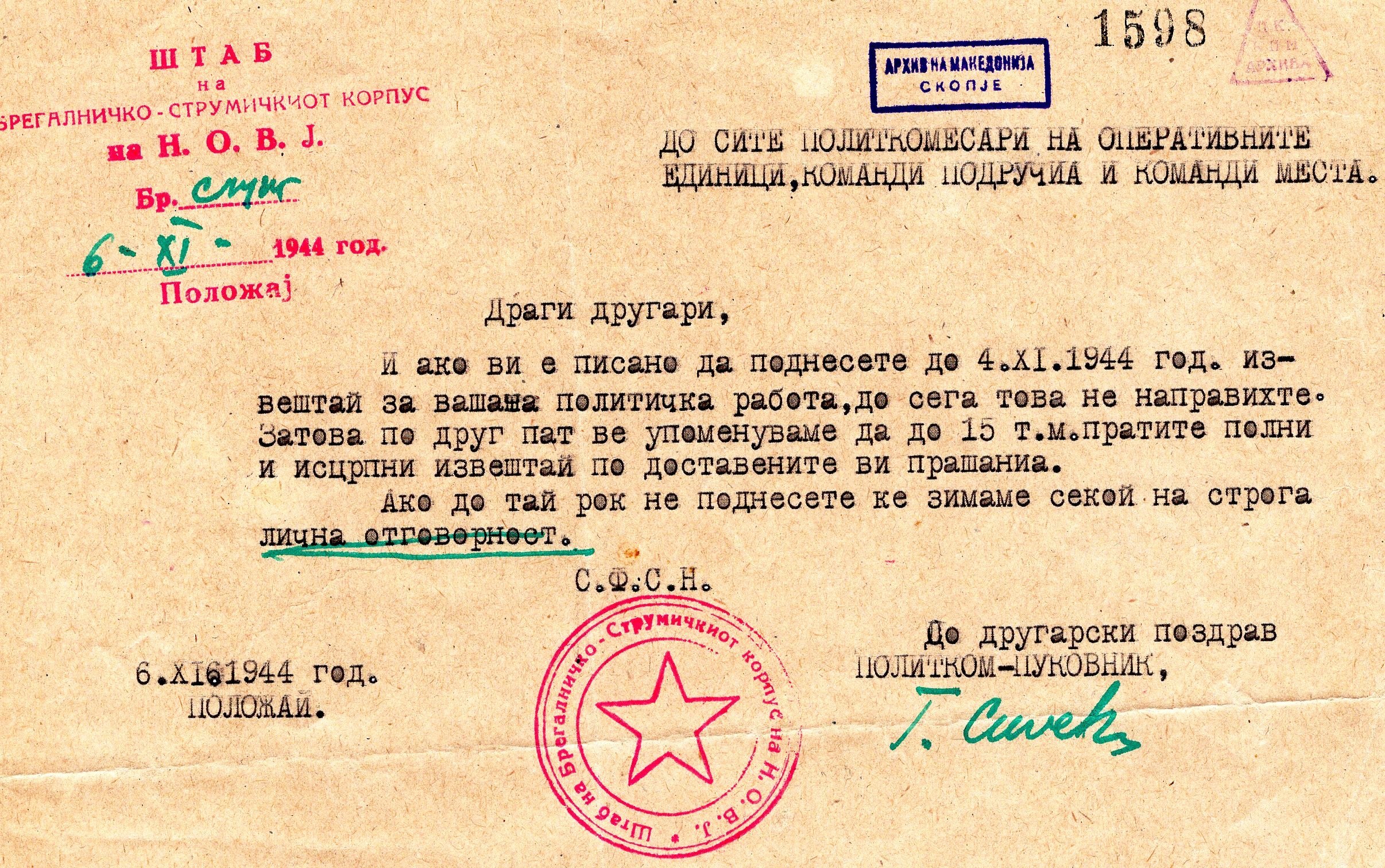 A document of the Bregalnica-Strumica with the seal, 1944. This media file is produced by Wikipedian in Residence in Category:Wikipedian in Residence at DARM in 2017.